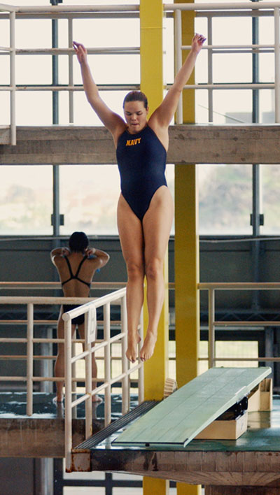 image from wp Originally uploaded by Minesweeper ---- Caption: 031205-N-2306S-003 Catania, Sicily (Dec. 5, 2003) -- Ensign Megan Barnett stationed at the U.S Naval Academy, completes a dive as she attempts to give the American Team their first medal. Ensign Barnett is a native Alexandria, Va., and is competing in the 3-meter spring-board diving event at the 3rd World Military Games. The Military World Games consists of 86 participating countries and are designed to promote "Peace through Sports.” U.S. Navy photo by Photographer’s Mate 2nd Class Isaiah Sellers III. (RELEASED)